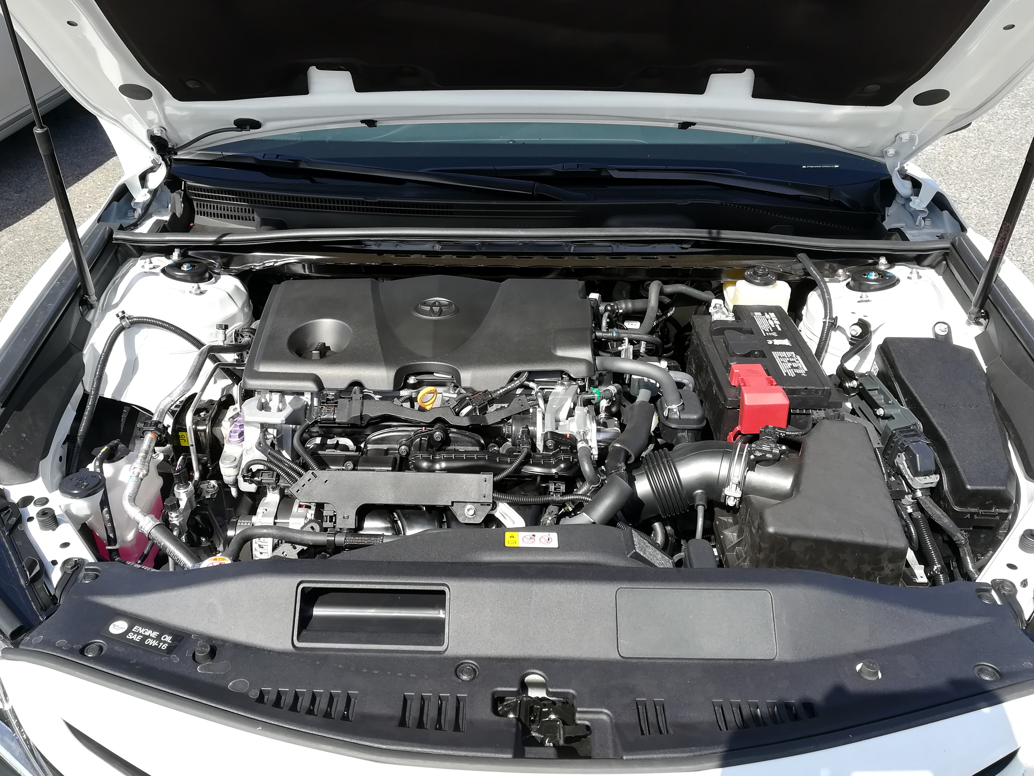 Toyota Camry XV70 2.5 Liter-Engine